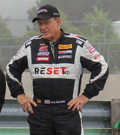 Sports car racing driver Jack Baldwin (racing driver) talking with another driver before his Pirelli World Challenge race at Road America.